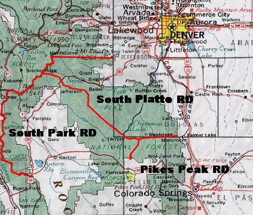 Map of Pike National Forest (green areas). Located in the Southern Rocky Mountains Range, central Colorado.